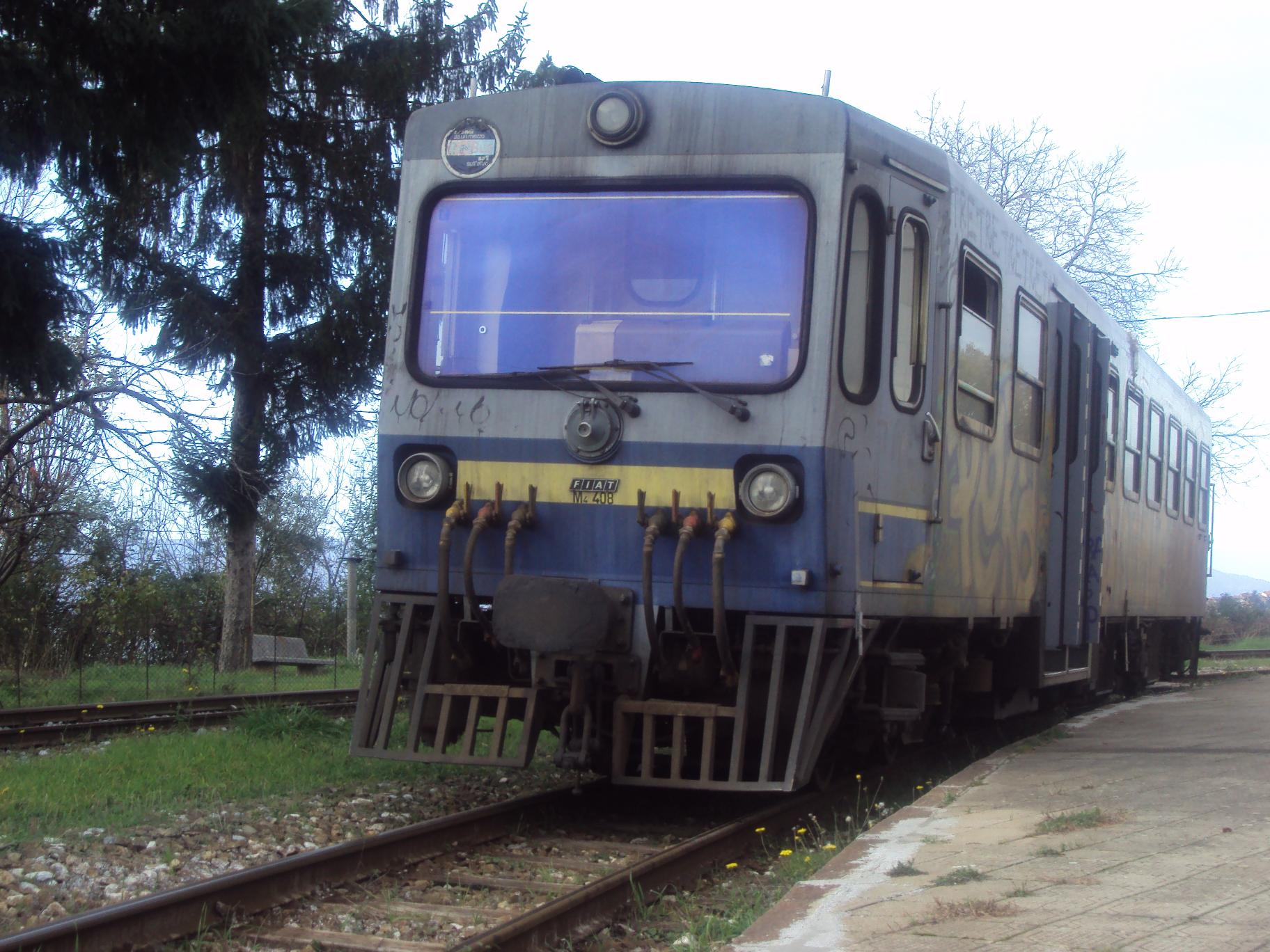 Ferrovie della Calabria's railcar M4.406 at Spezzano della Sila